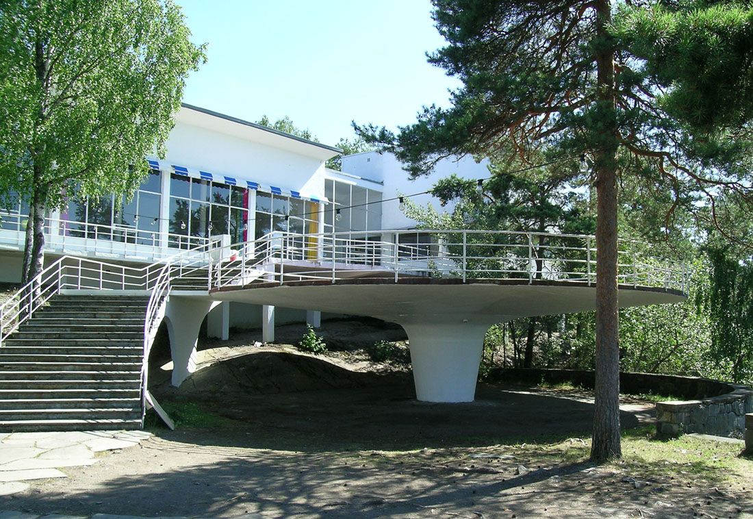 Ingierstrand restaurant, Oppegård, Norway. The outdoor dancing floor is the earliest example of a «mushroom» construction in reinforced concrete in Norway.